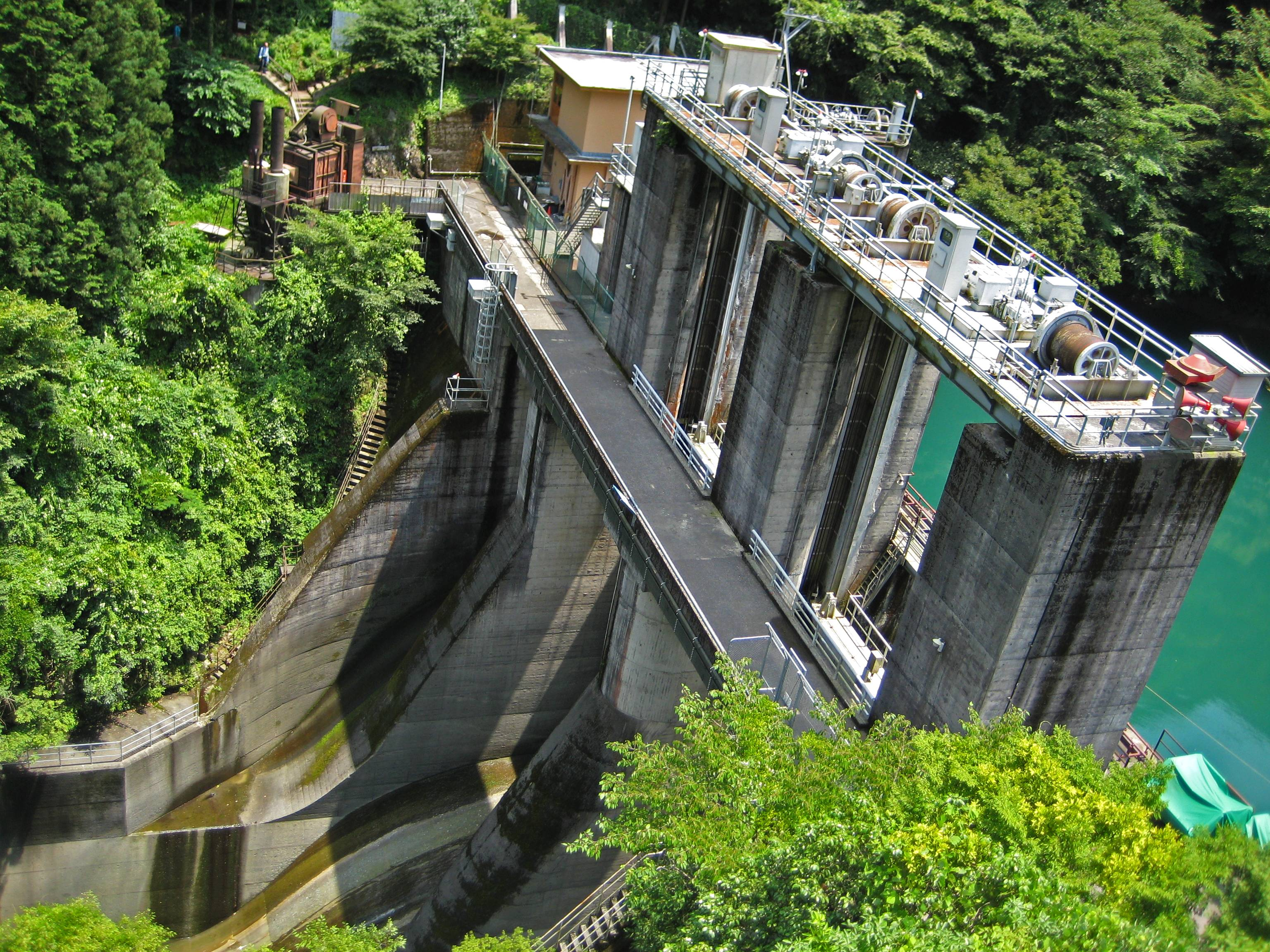 Shiromaru Dam.